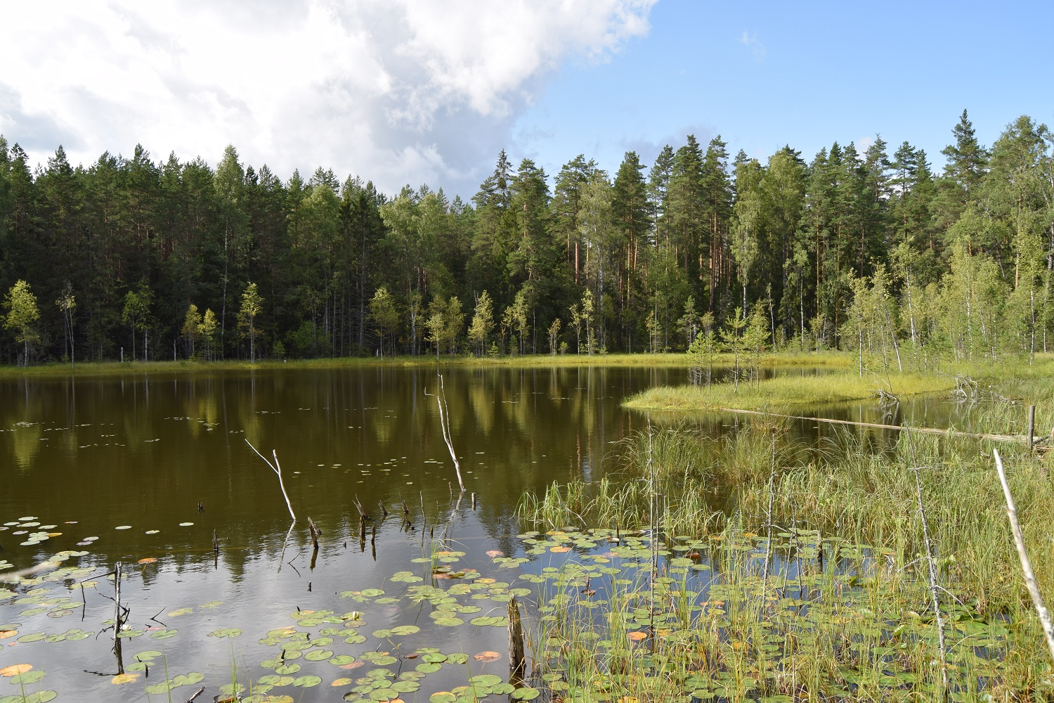 Mõujärv